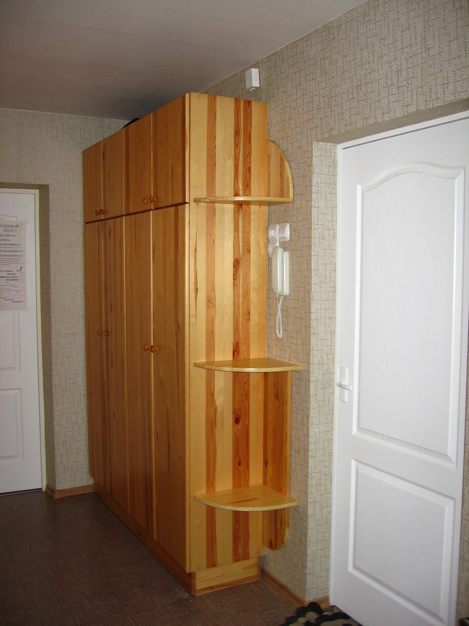 Entryway